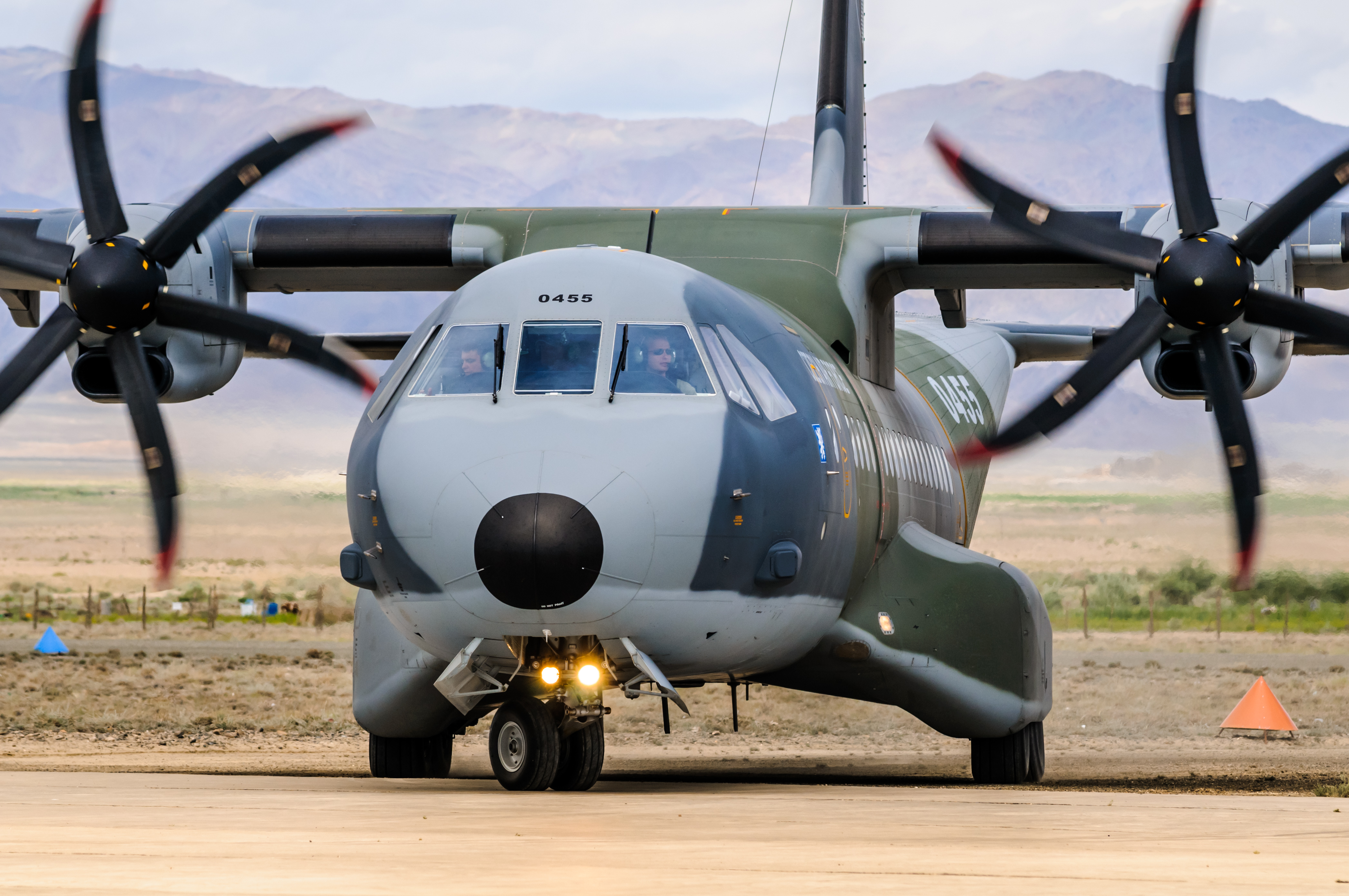 Return of the Wild Horses 2013